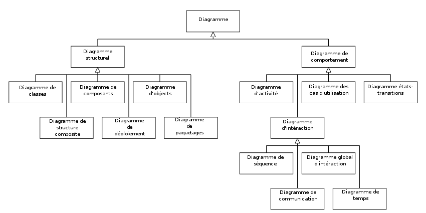 Class diagram of the 13 types of diagrams of the Unified Modelling Language 2.0